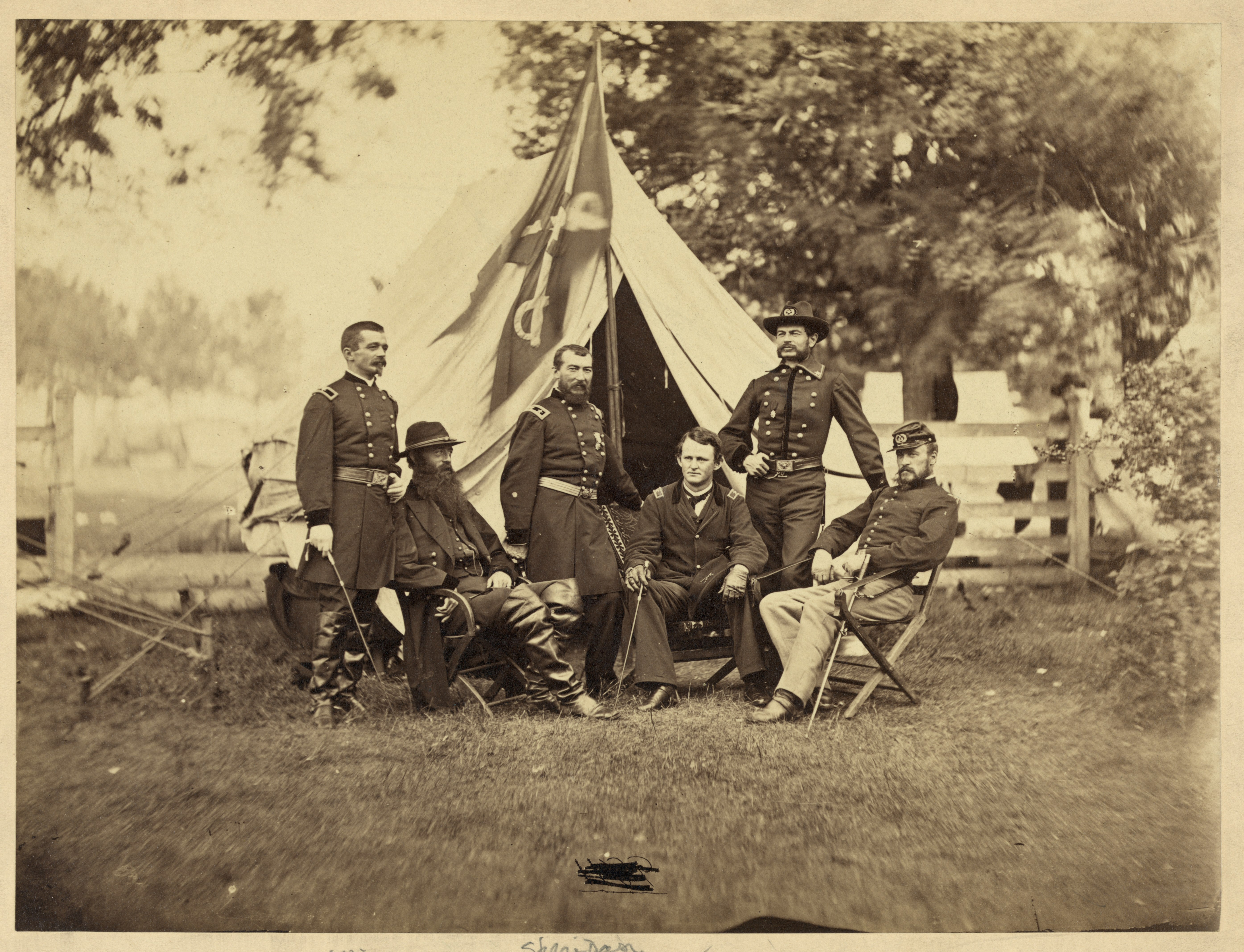 Title: Major General Philip Sheridan and his generals in front of Sheridan's tent Abstract/medium: 1 photographic print : albumen silver ; 18 x 23.5 cm (image)